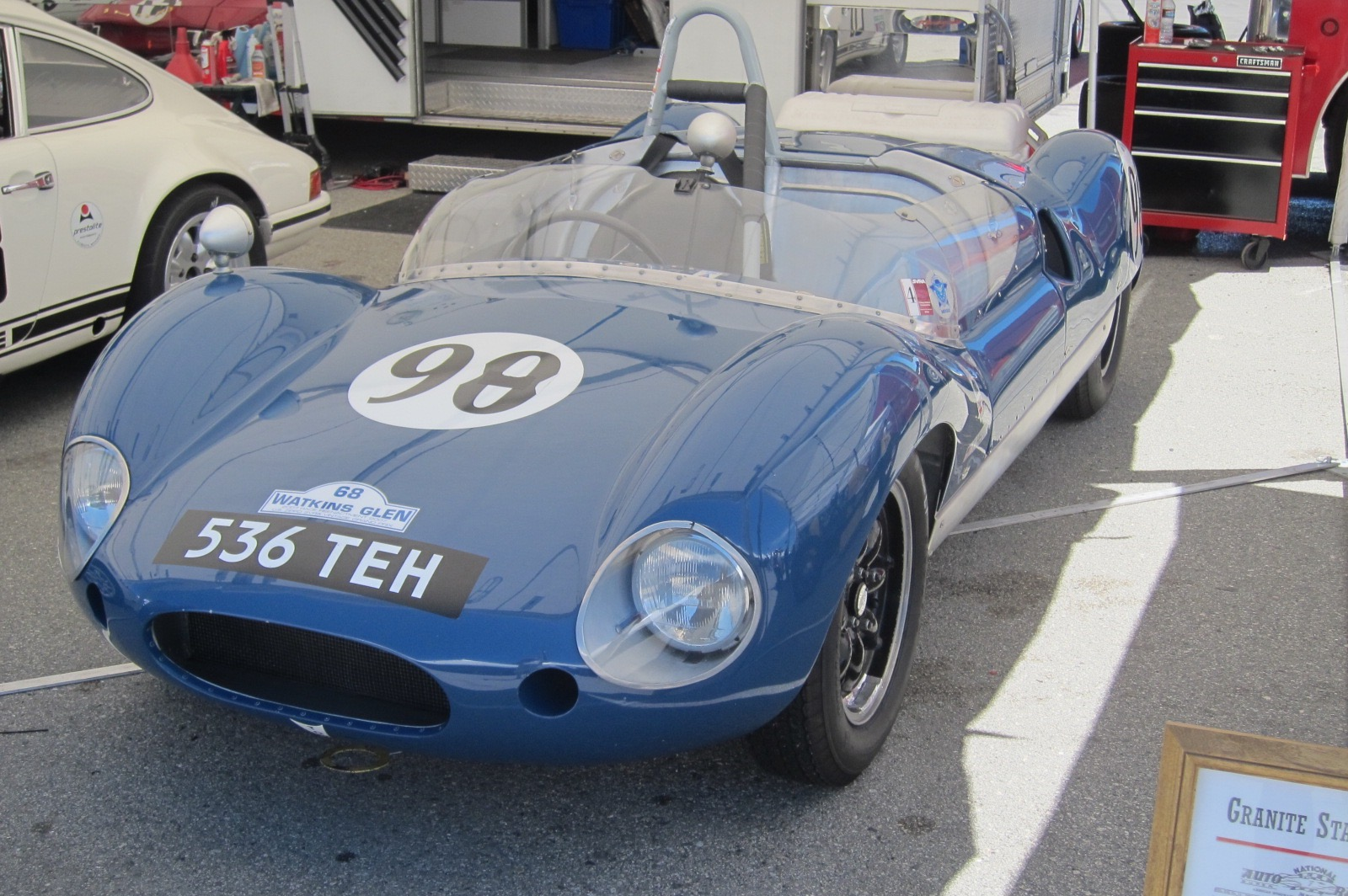 Rolex Historical Car Reces